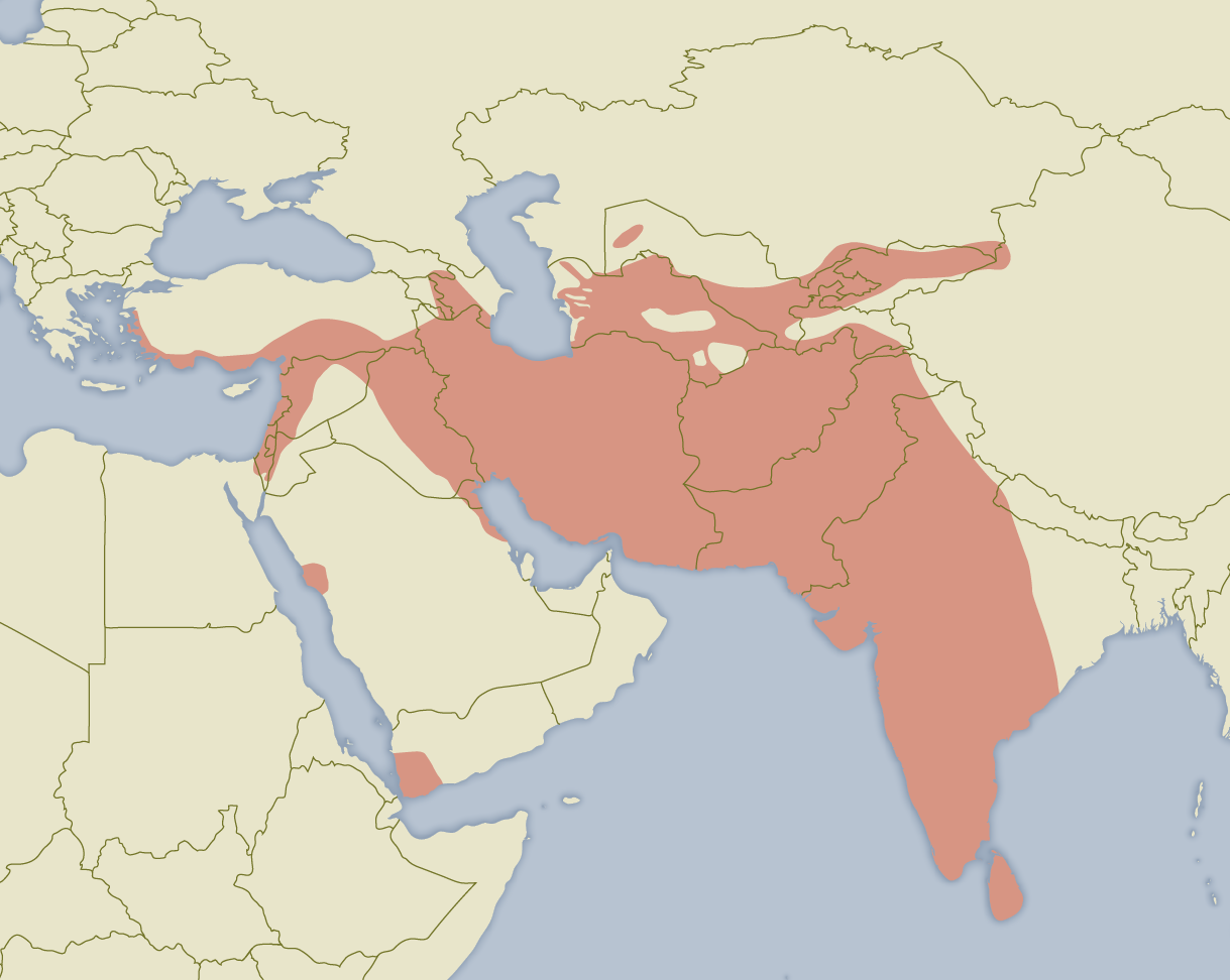 Distribution map of the Indian crested porcupine